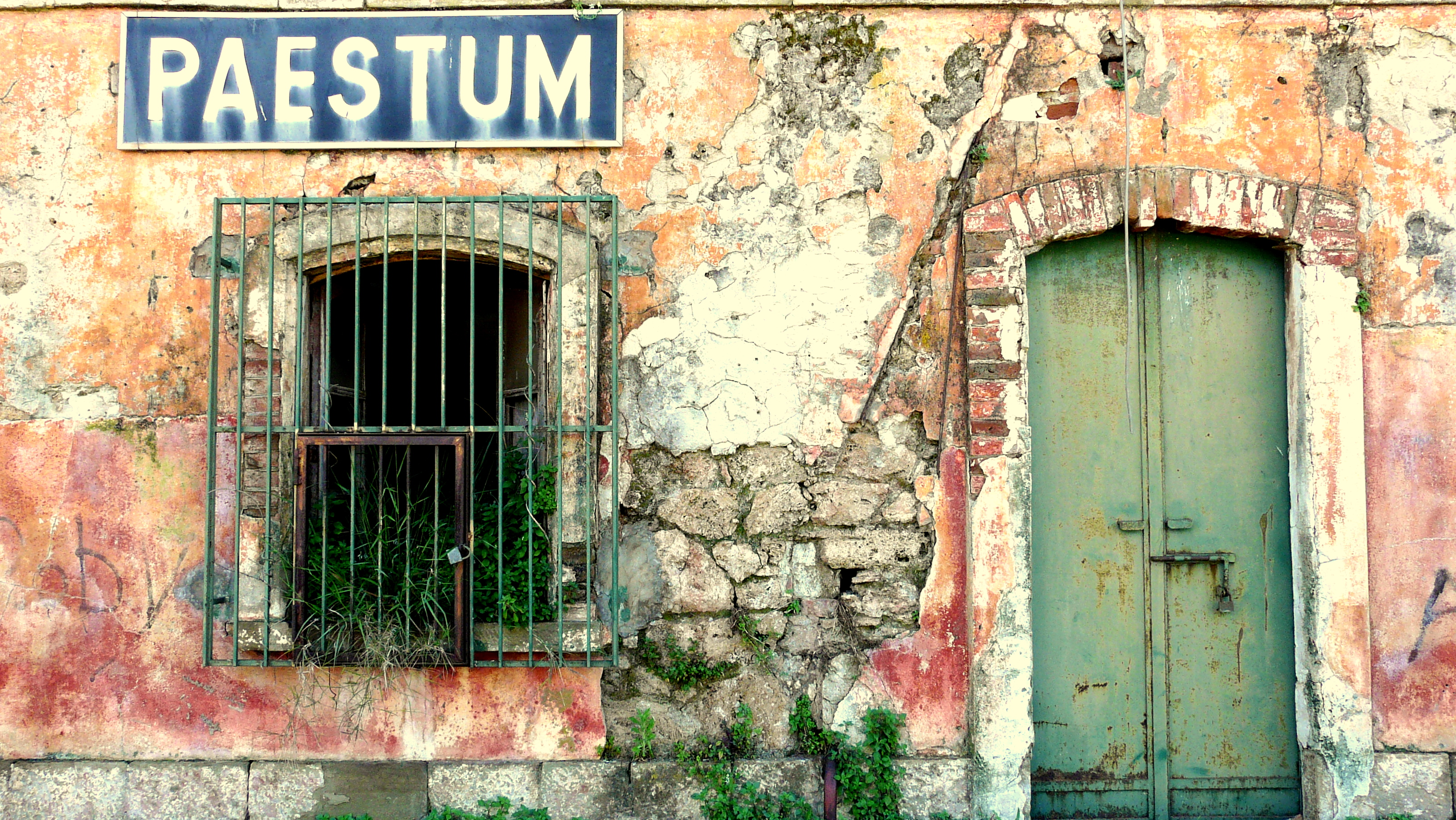 Paestum old railway station, Paestum, Salerno, Italy